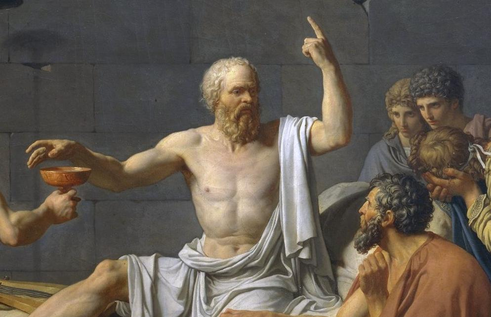 Cropped version of Jacques-Louis David's The Death of Socrates (1787).